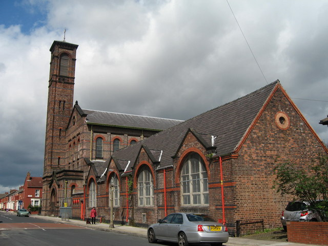 Church of England parish church of St Bridget, Bagot Street, Wavertree, Liverpool